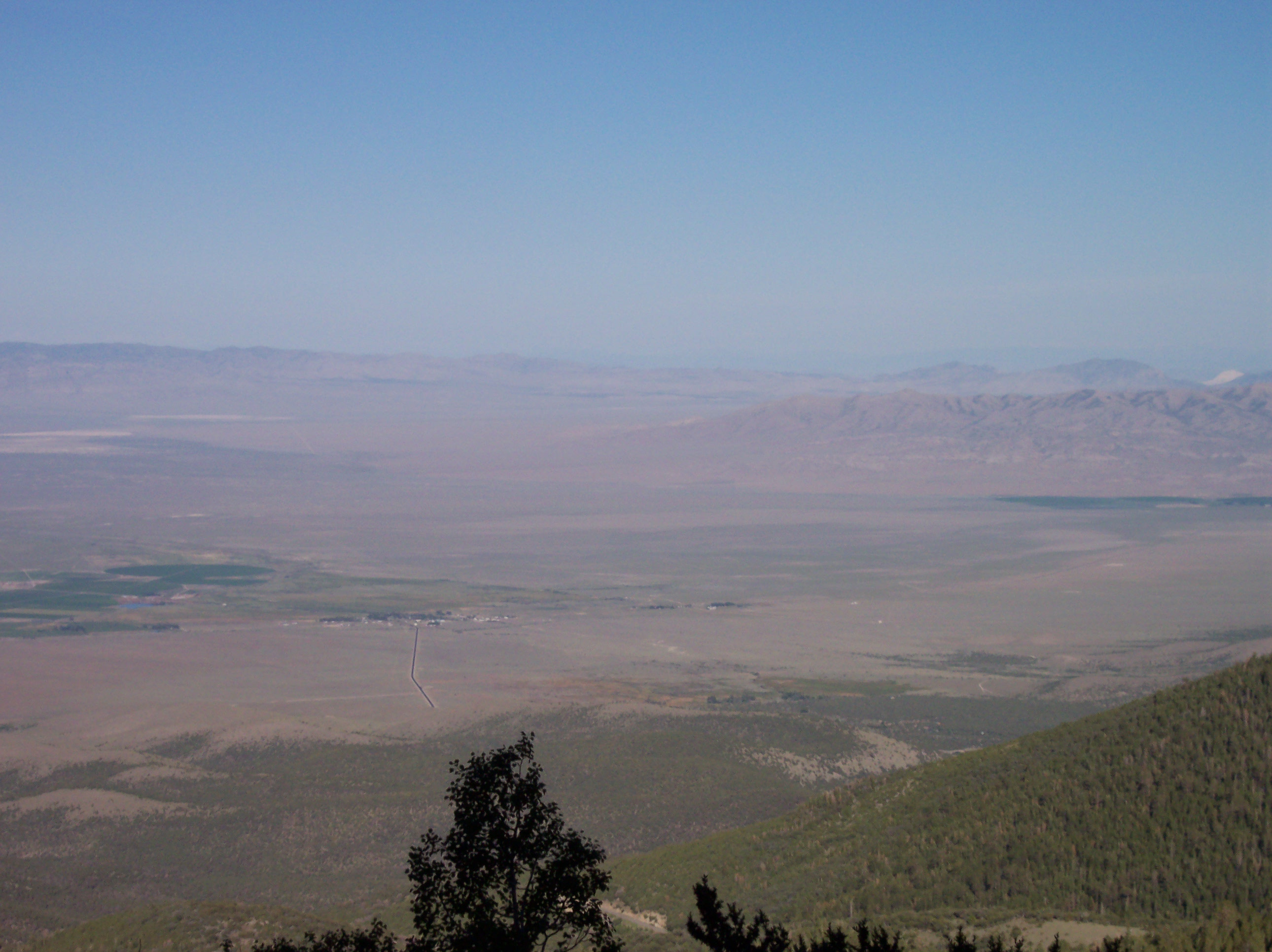 A valley in Great Basin National Park, Nevada, USA, seen from Wheeler Peak.